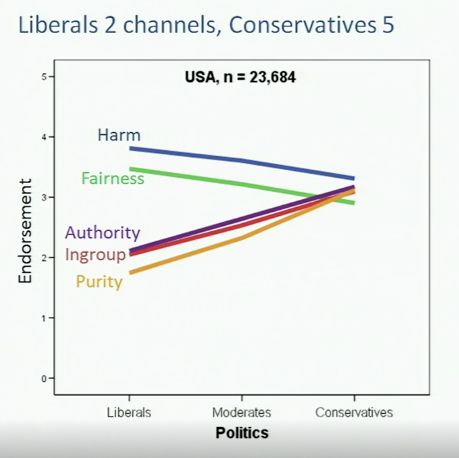 From research on morality and political leanings